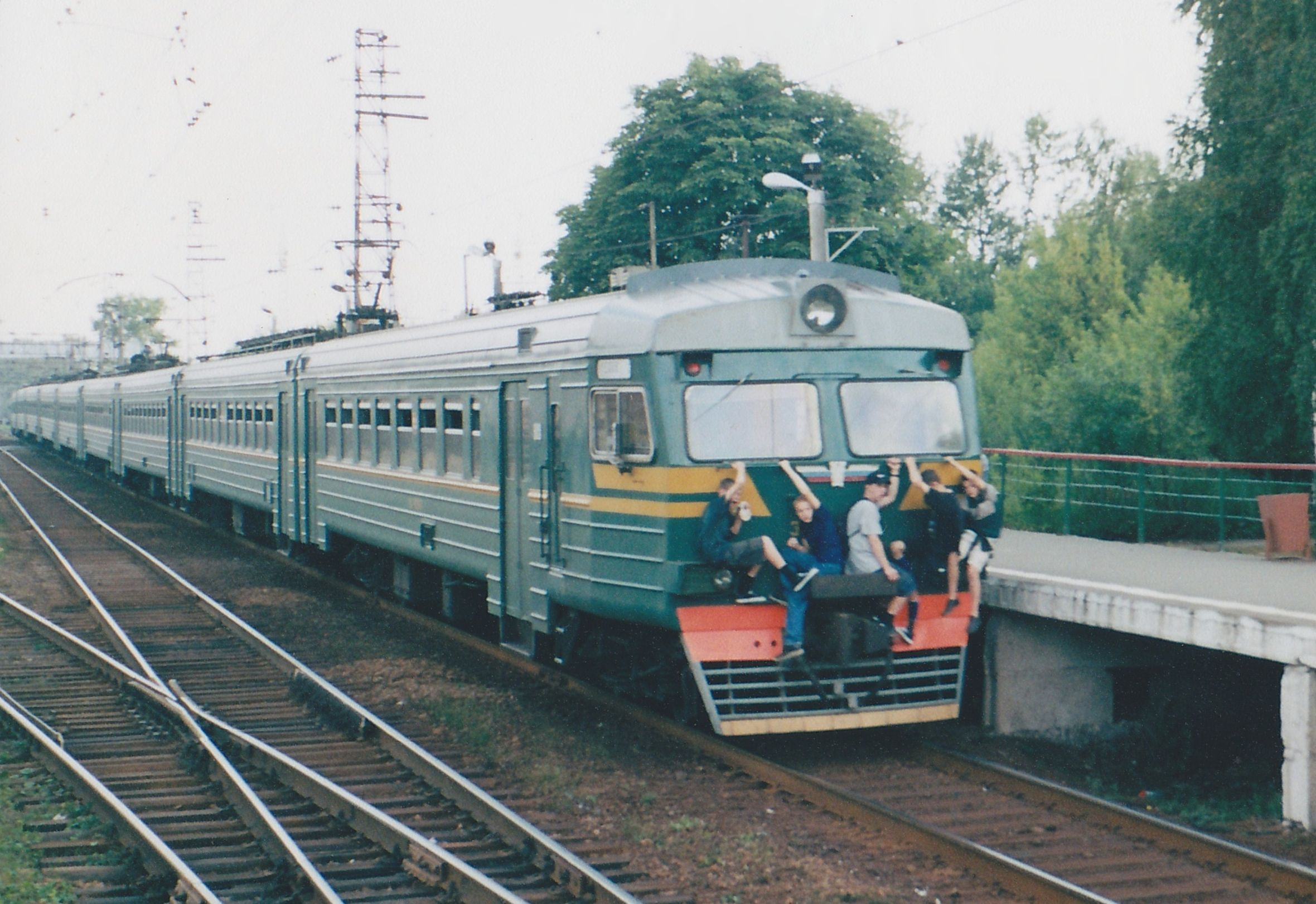 Electric multiple unit ED4-0005 with train surfers on it's back side at Scherbinka railway station.